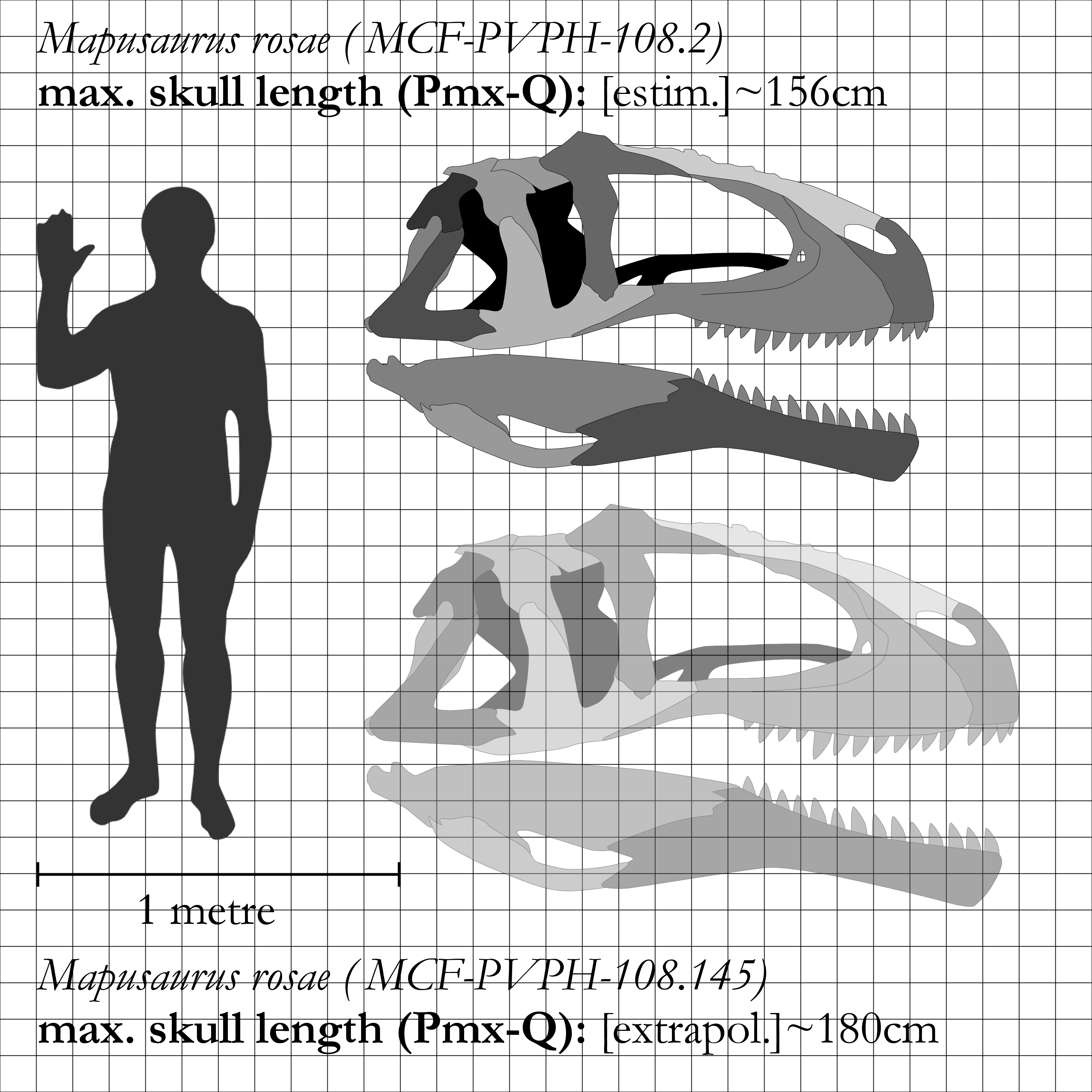 Skull reconstruction of the Cenomanian Carcharodontosaur Mapusaurus roseae. Based on Coria & Currie, 2006 for the material and measurements, hypothetical (phantom) skull indicates extrapolated size for the largest known specimen.